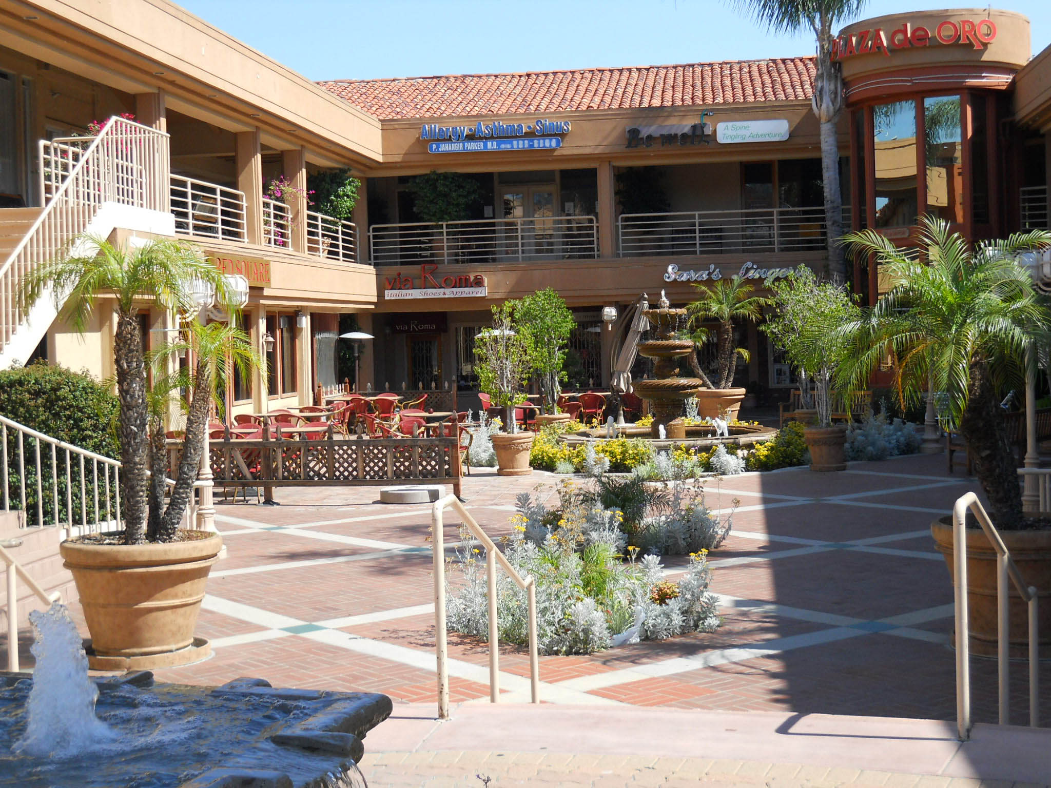 Plaza de Oro (Plaza of Gold) Shopping Center, Ventura Blvd., Encino, Los Angeles, CA